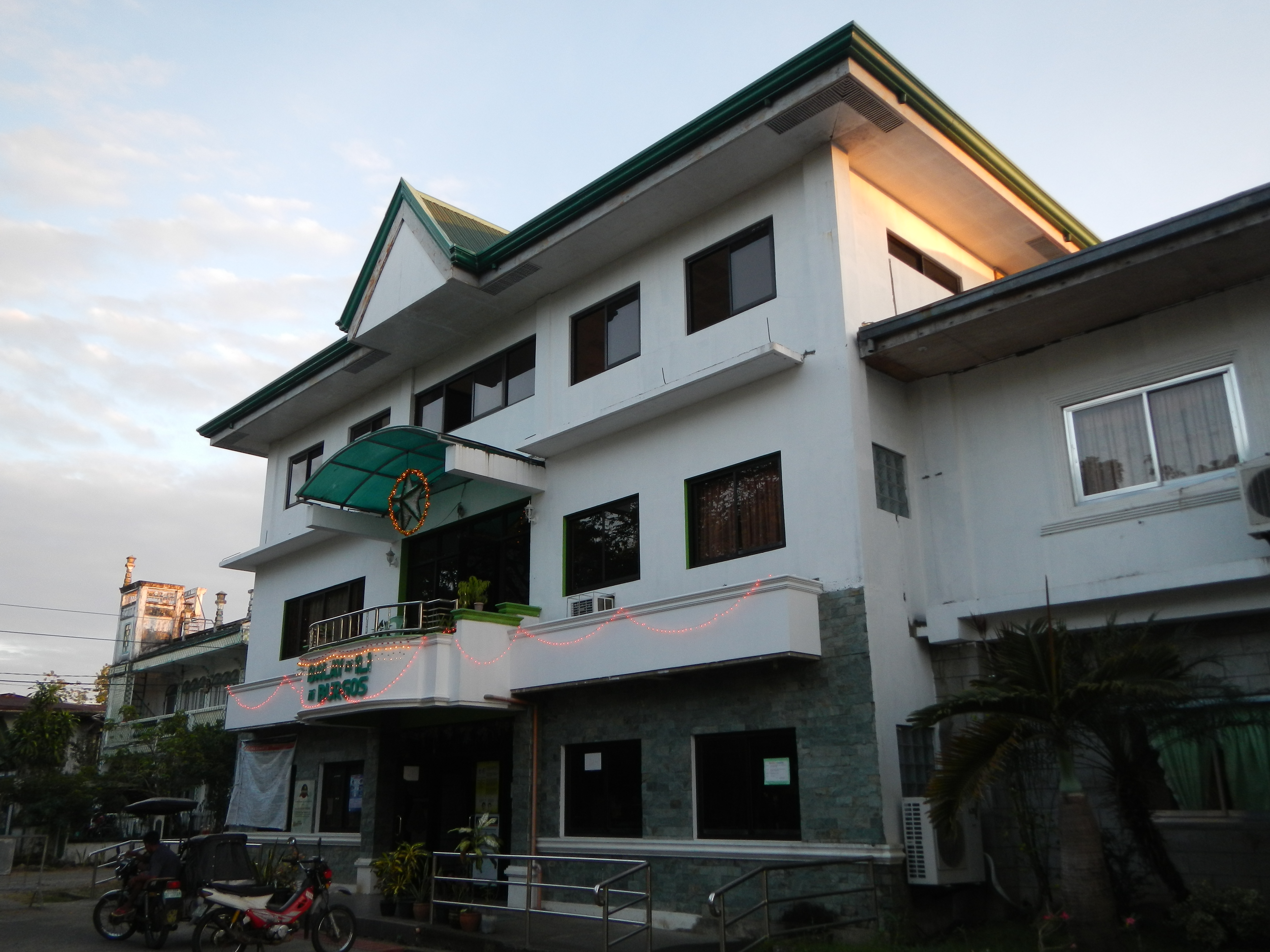 Upload Wizard -- (general description of landmarks, Town Hall, Church, going to dark, sunset conditions) - Burgos, Pangasinan,[1] the Town Proper, Poblacion, where the Veterans Federation of the Philippines, Marker Memorial stands beside the Burgos Coverec Court, Auditorium and Town Plaza, Municipal Stage, in the center is the statue of the Town's Martyr Padre José Burgos[2] - Gomburza [3] - Halls of Justice housing the Courts, the Burgos Town Hall called Balay Ili Burgos, Labrador Park, reconstructed November 1995, Welcome Arch Burgos Government Service Center and Maharlika or Pan-Philippine Highway passing along the Burgos Public Market.